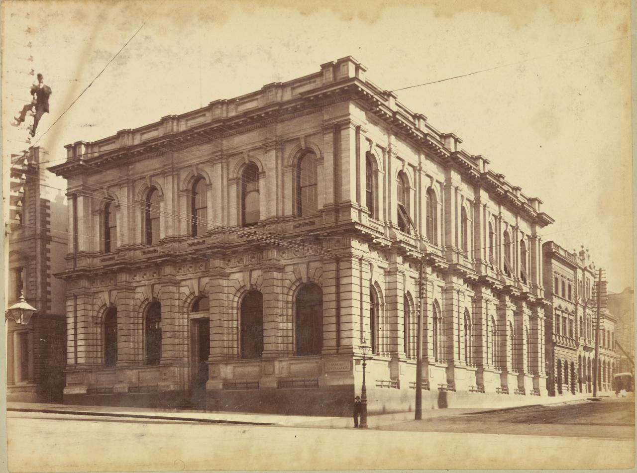 Bank of Australasia, 1890s, JW Lindt photographer, national gallery Victoria collection